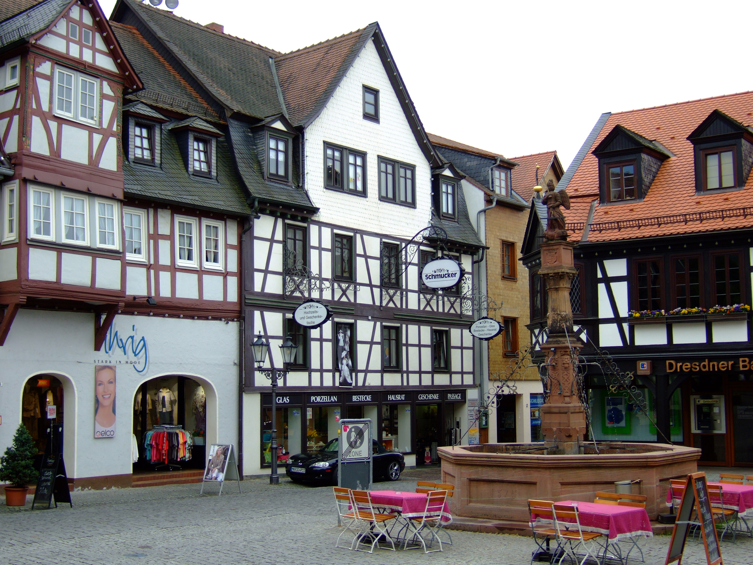 half-timbered houses of Michelstadt/Germany